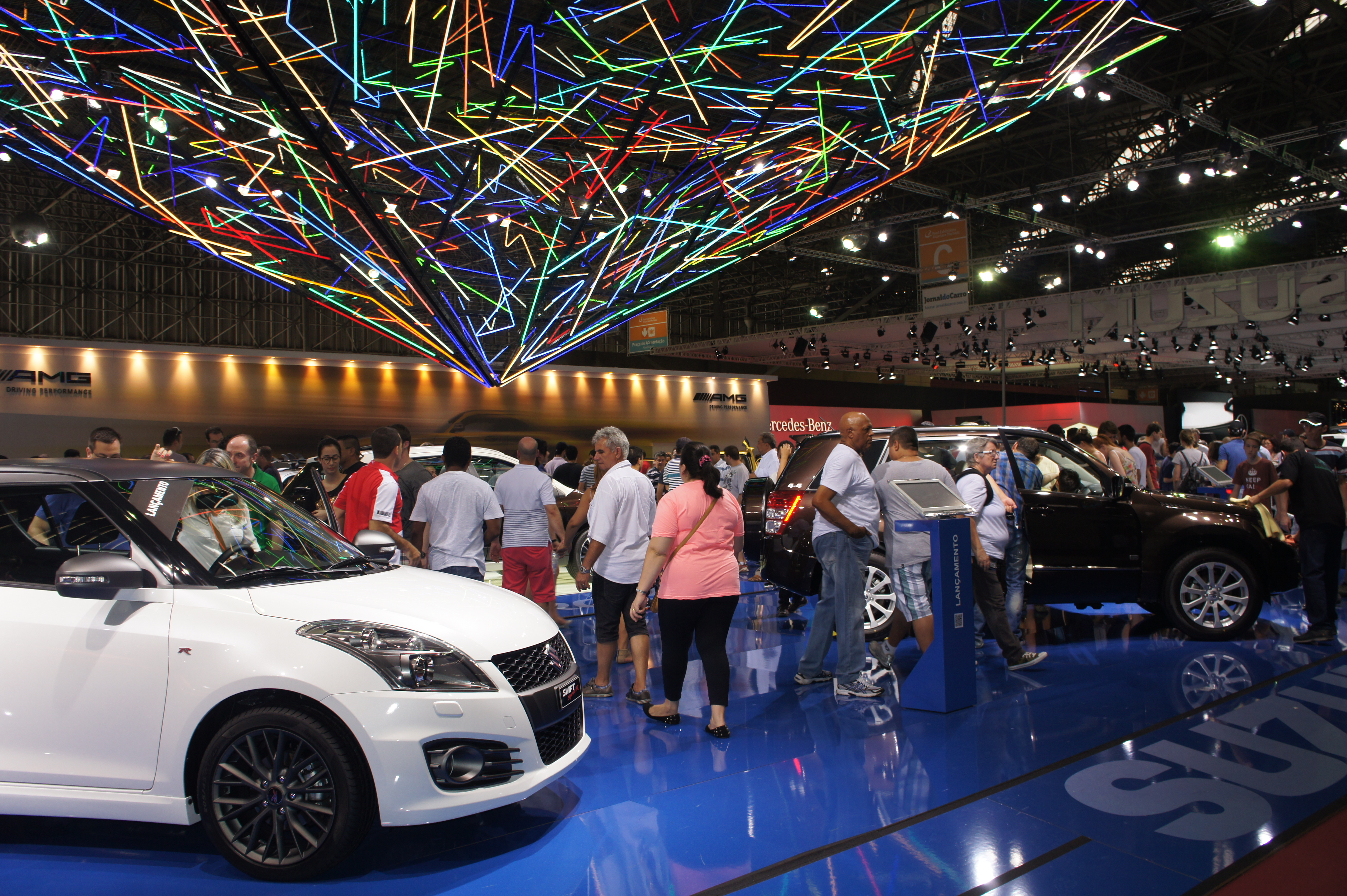 General view of the Salão Internacional do Automóvel 2014 São Paulo, Anhembi Convention Center, Brazil